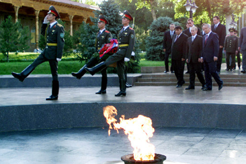 TASHKENT. Laying wreaths at the monument “The Mourning Mother”.